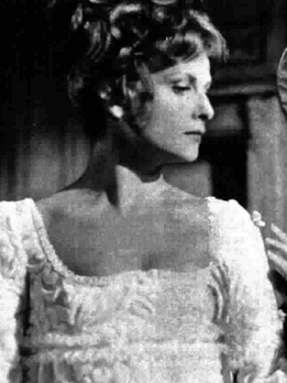 Italian actress Halina Zalewska